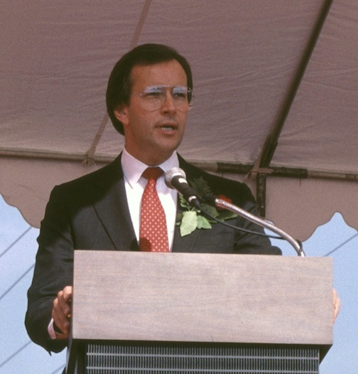 U.S. Representative Les AuCoin (of Oregon) speaking at the opening ceremony for the first MAX light rail line, in Gresham, Oregon, in 1986.